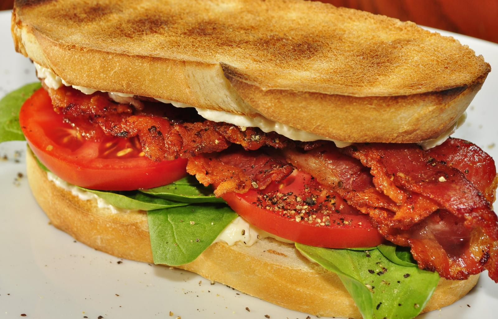 BLT sandwich prepared with spinach